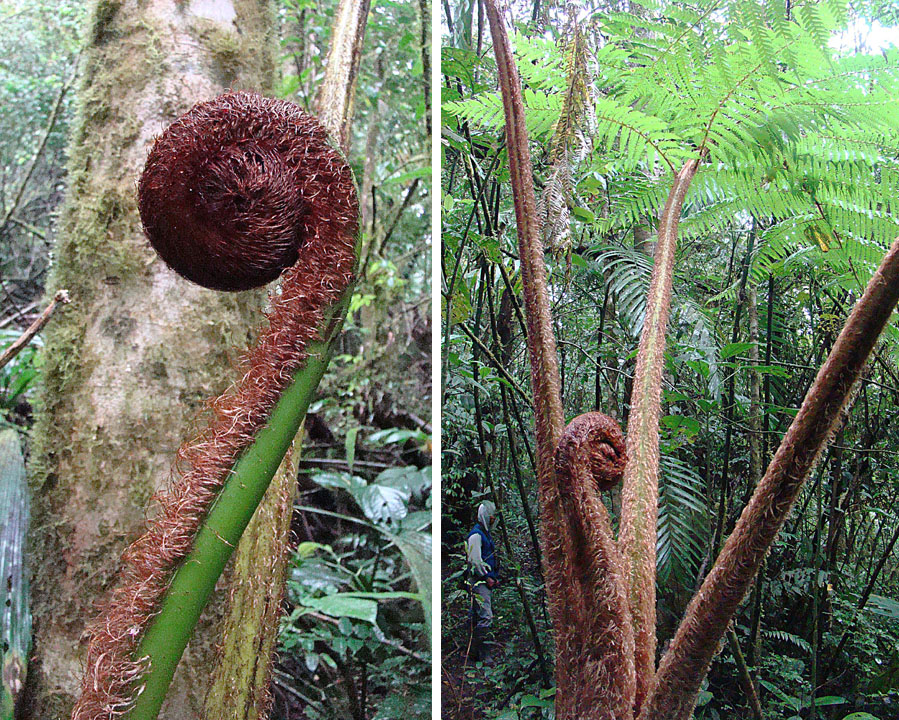 The fronds are known as Monkey Tails. Mainly a Costa Rican species. Photo from southern Nicaragua. In context at